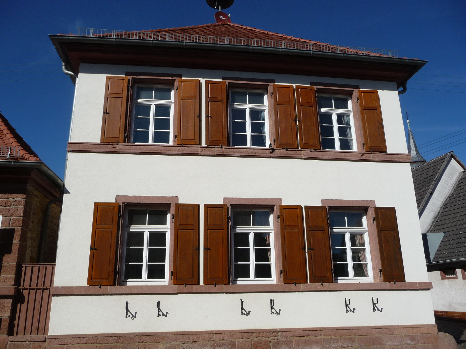 house in Kleinfischlingen in Rhineland-Palatinate, Germany